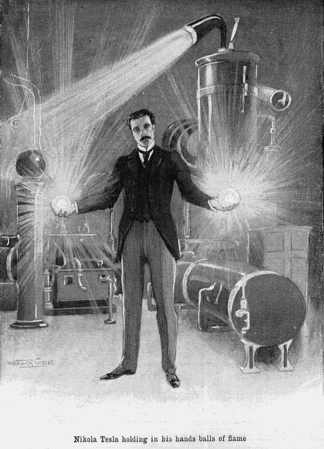 Nikola Tesla holding in his hands balls of flame by Warwick Goble. Illustration from the article by Chauncy Montgomery M'Govern, "The New Wizard of the West: An interview with Tesla, the Modern Miracle-Worker, who is Harnessing the Rays of the Sun; has Discovered Ways of Transmitting Power without Wires and of Seeing by Telephone; has Invented a Means of Employing Electricity as a Fertiliser; and, Finally, is Able to Manufacture Artificial Daylight", Pearson's Magazine, May 1899, p. 471